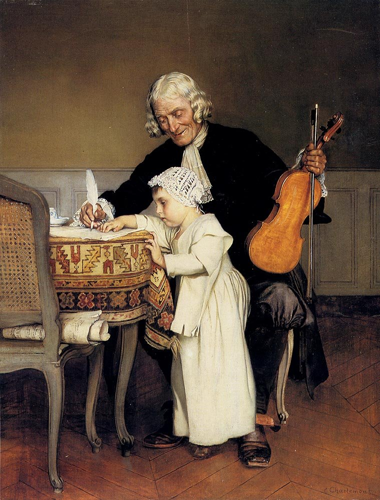 The Music Lesson